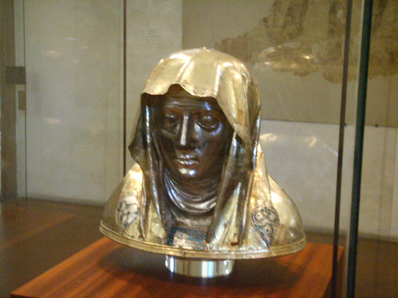 Santa Croce museum, relics of Beata Umiliana de' Cerchi, in Florence, Italy